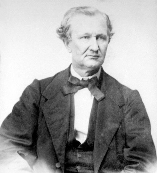 Henry Meiggs Williams (1811 - 1877)